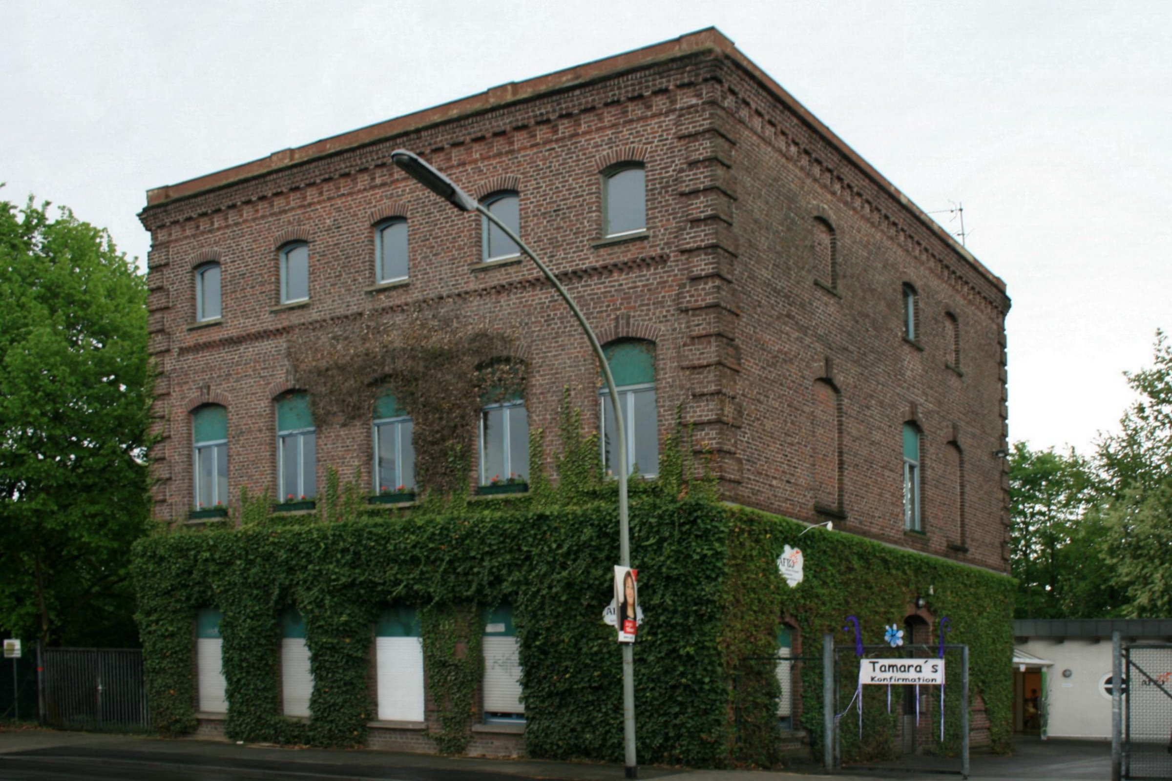 Cultural heritage monument No. R 029 in Mönchengladbach